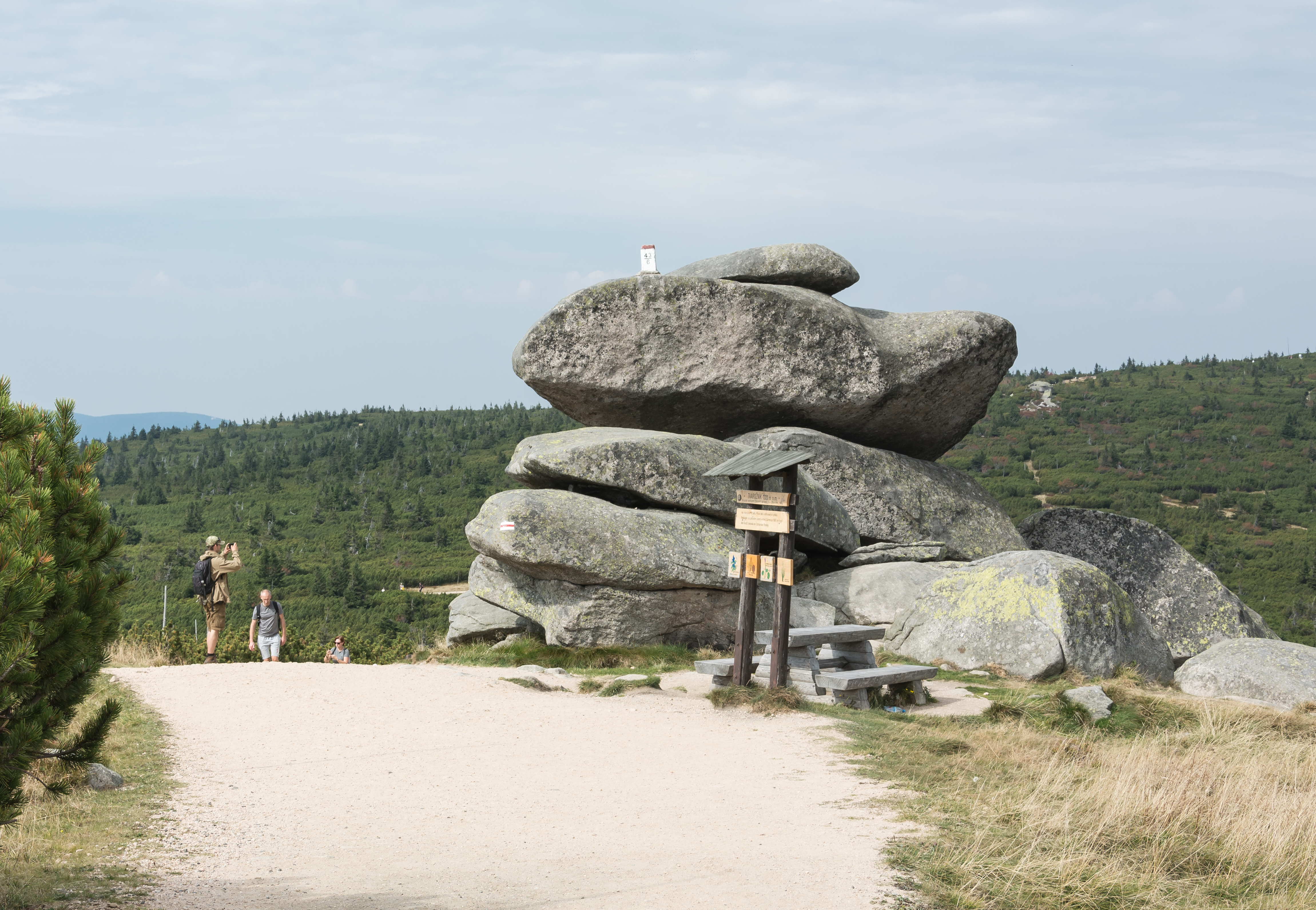 Twarożnik, Krkonoše, Sudetes